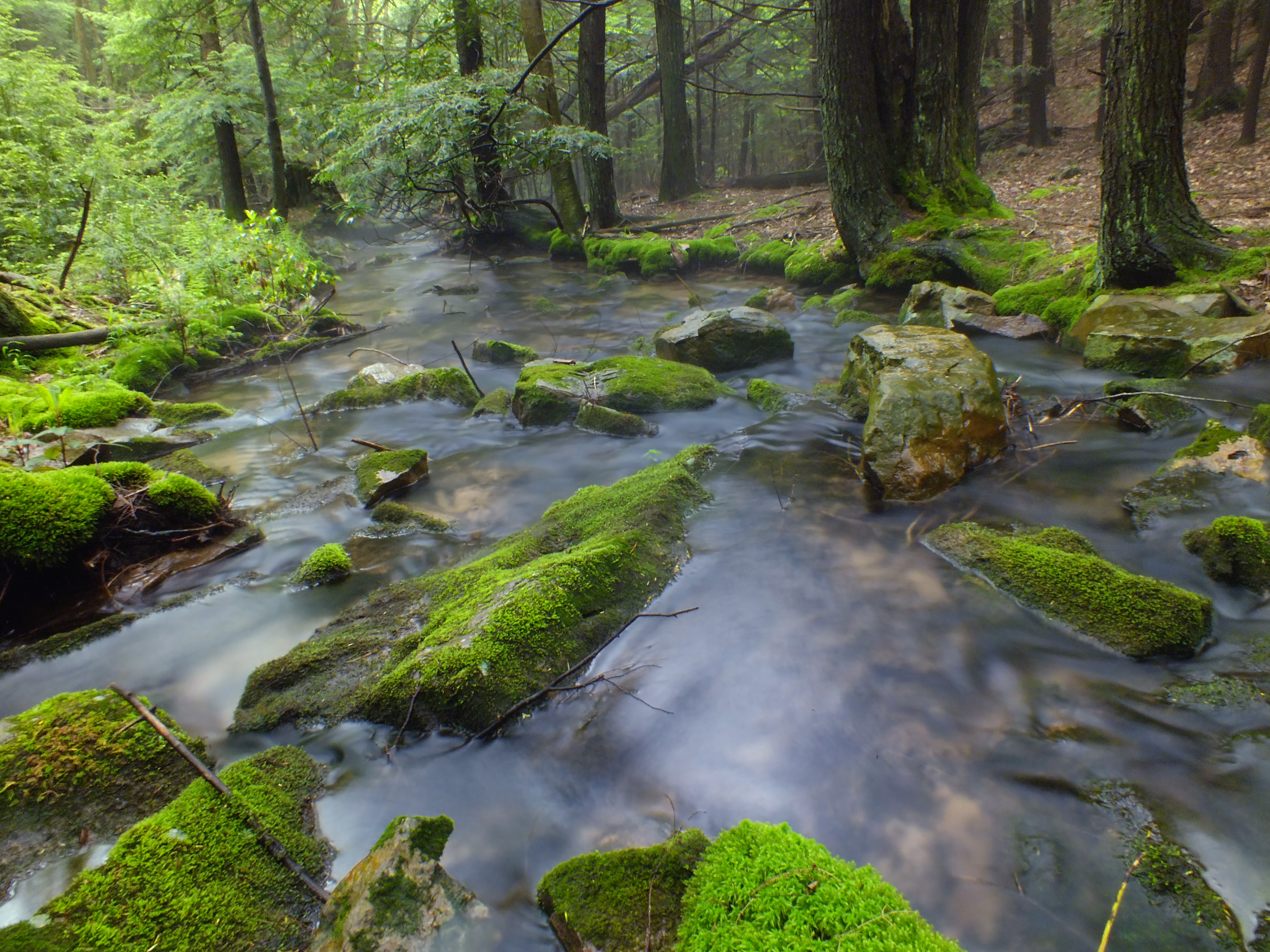 North Branch Buffalo Creek, Union County, within the Hook Natural Area of Bald Eagle State Forest. The natural area protects 5100-plus acres of mountainous, heavily forested land.